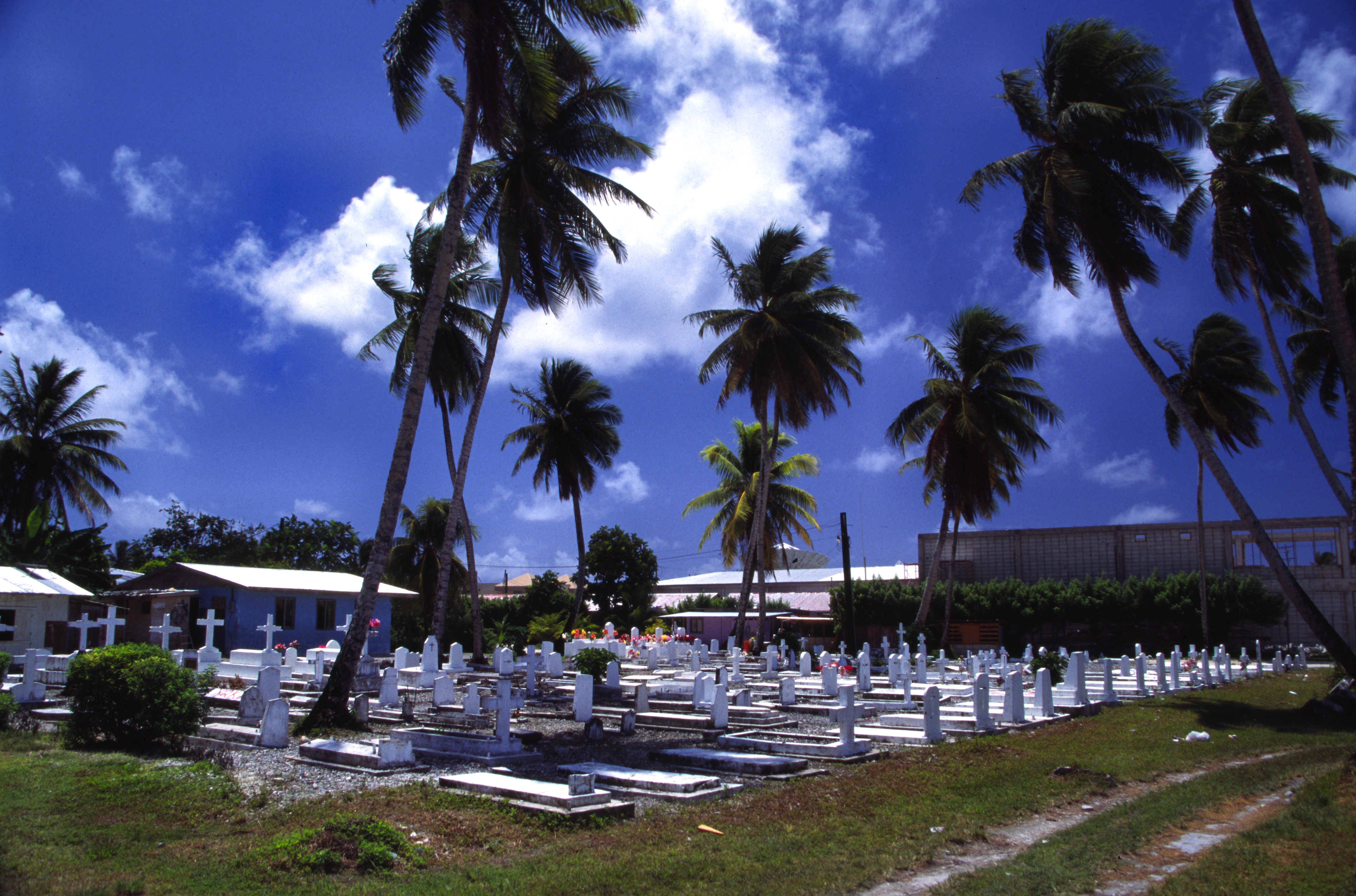 [scanned slide from March 2000]